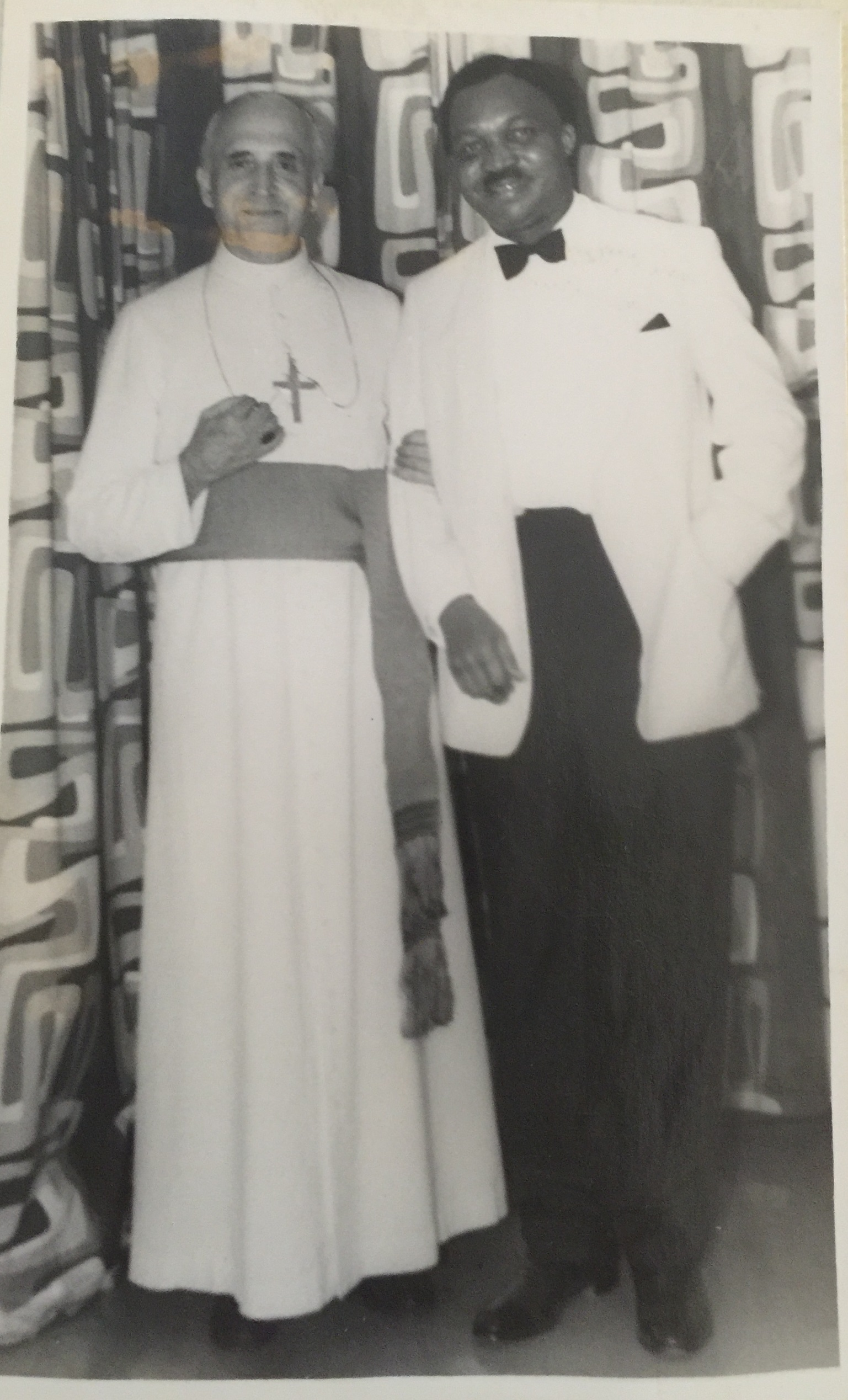 Mr Raymond Njoku with a Priest